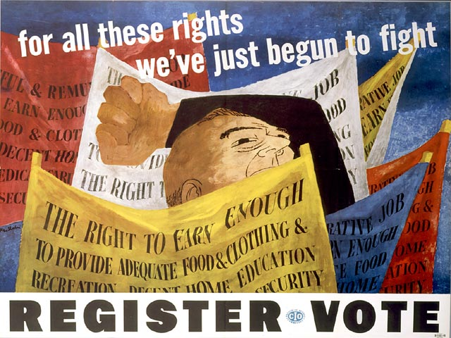 The Congress of Industrial Organizations (CIO) Political Action Committee was established in 1943 to educate and mobilize CIO members about political issues of special concern to labor. The Committee championed the rights of all workers and strived to raise awareness of the importance of protecting their rights by registering and voting. This is one of several posters Ben Shahn designed for the CIO. (from